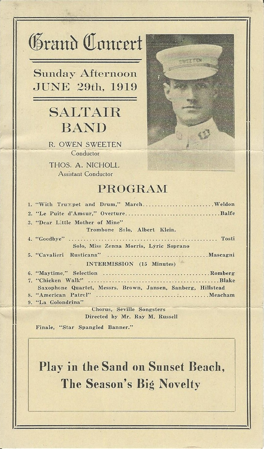 First page of program for a Sunday night Grand Concert at the Saltair resort in Utah, featuring the Saltair Band